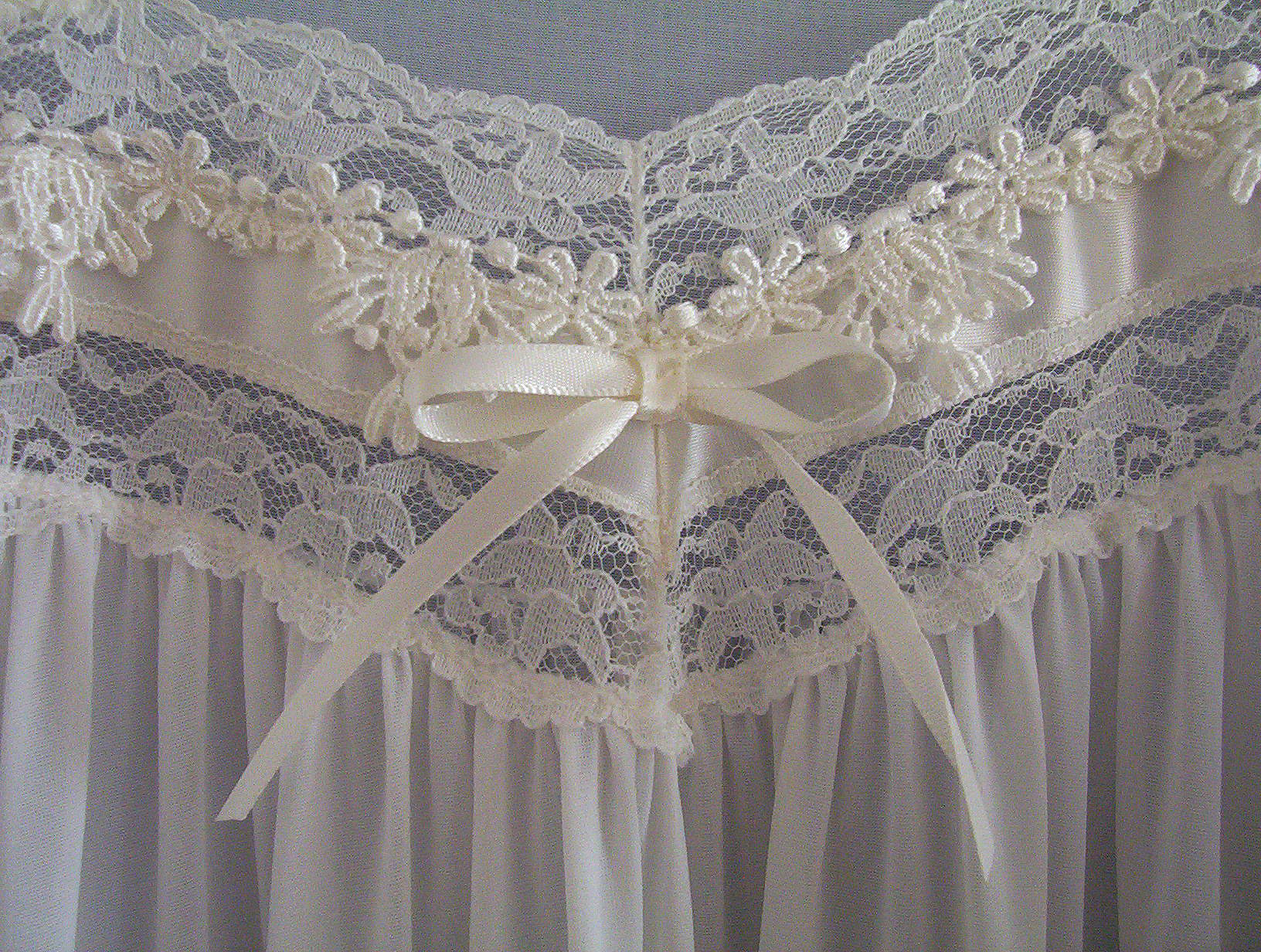 I took this photograph myself